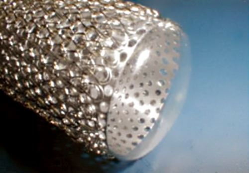 Upper end of an ionization tube, which serves to supply the air.